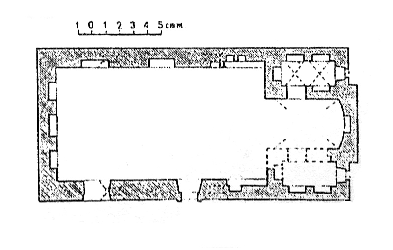 Former Armenian church, plan